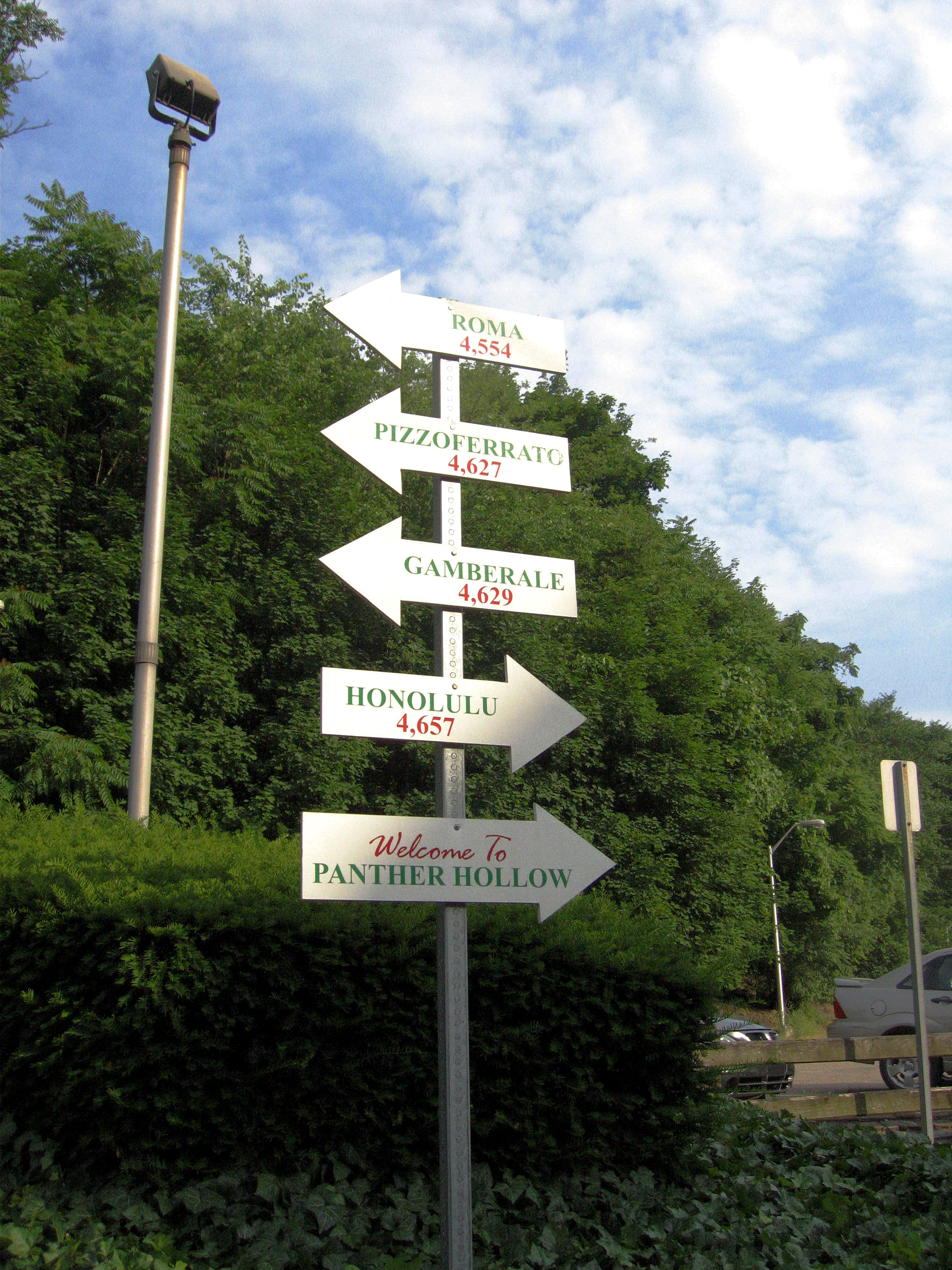 Panther Hollow: about halfway between Rome and Honolulu.